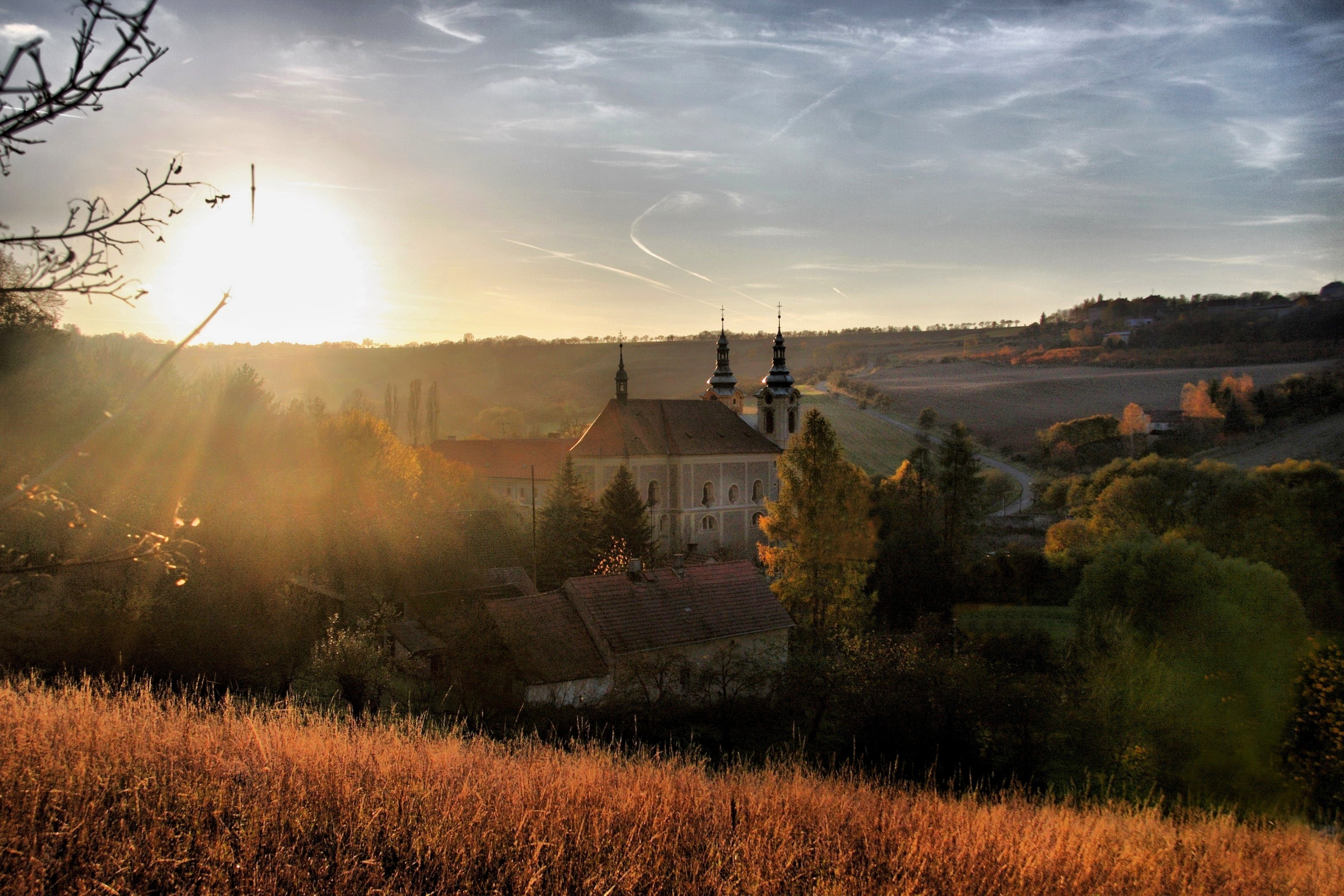 Monastery in Dolní Ročov, Louny District, Czech Republic